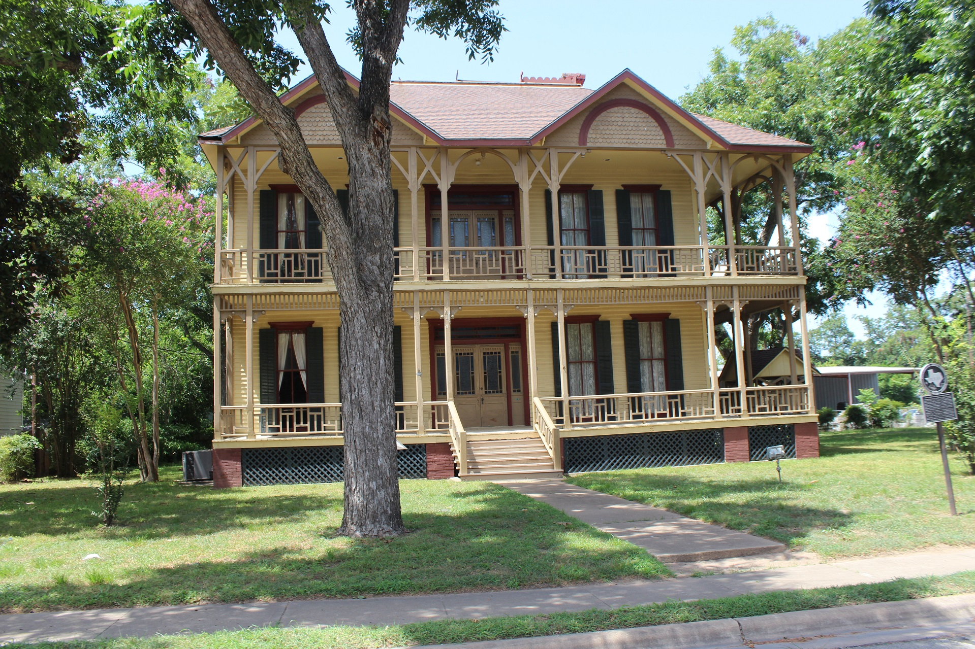 Tate-Senftenberg-Brandon Home. Originally a modest one-story cottage built about 1867 by Phocian Tate. Sold in 1887 to A. Senftenberg, merchant, who added second story and porches with Victorian ornamentation. In 1900 Kenneth Brandon bought home and extended northeast section. Most of early features still remain. Of interest is basement built of Columbus-made brick. In 1968 Magnolia Homes Tour bought house to restore it as a museum, with period furnishings. #5205